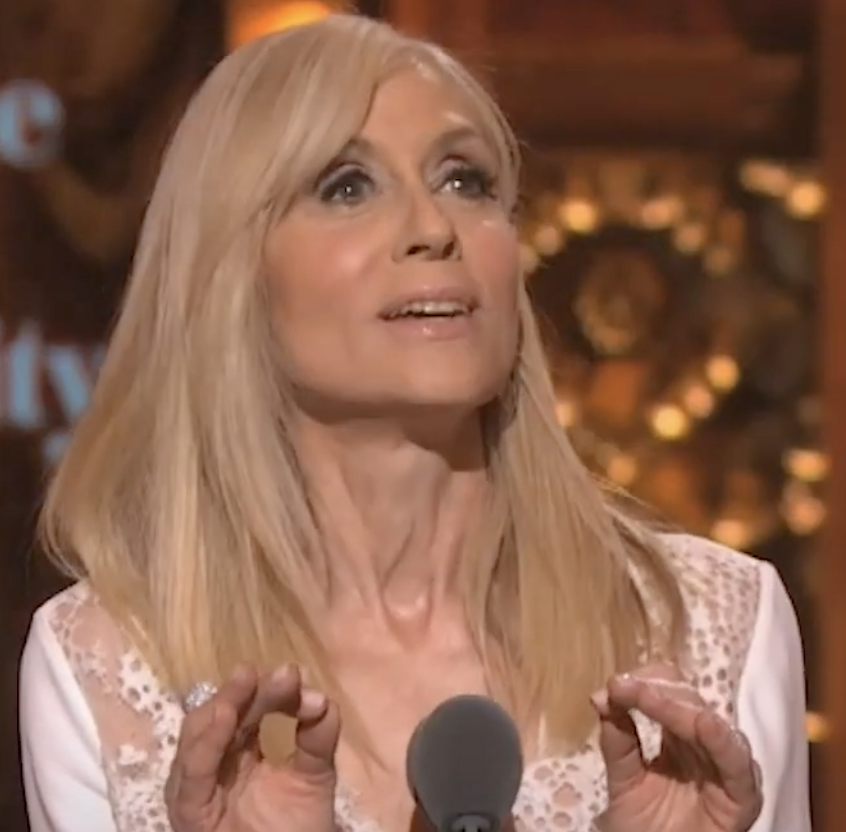 Judith Light speaking at the 2019 Tony Awards